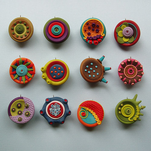 polymer clay (studio by sculpey) pendants